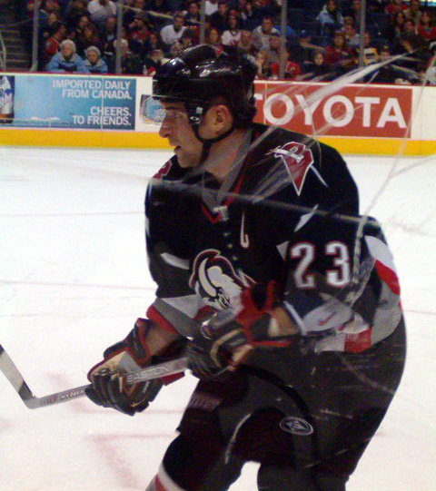 Chris Drury, ice hockey player. Here seen playing for the Buffalo Sabres